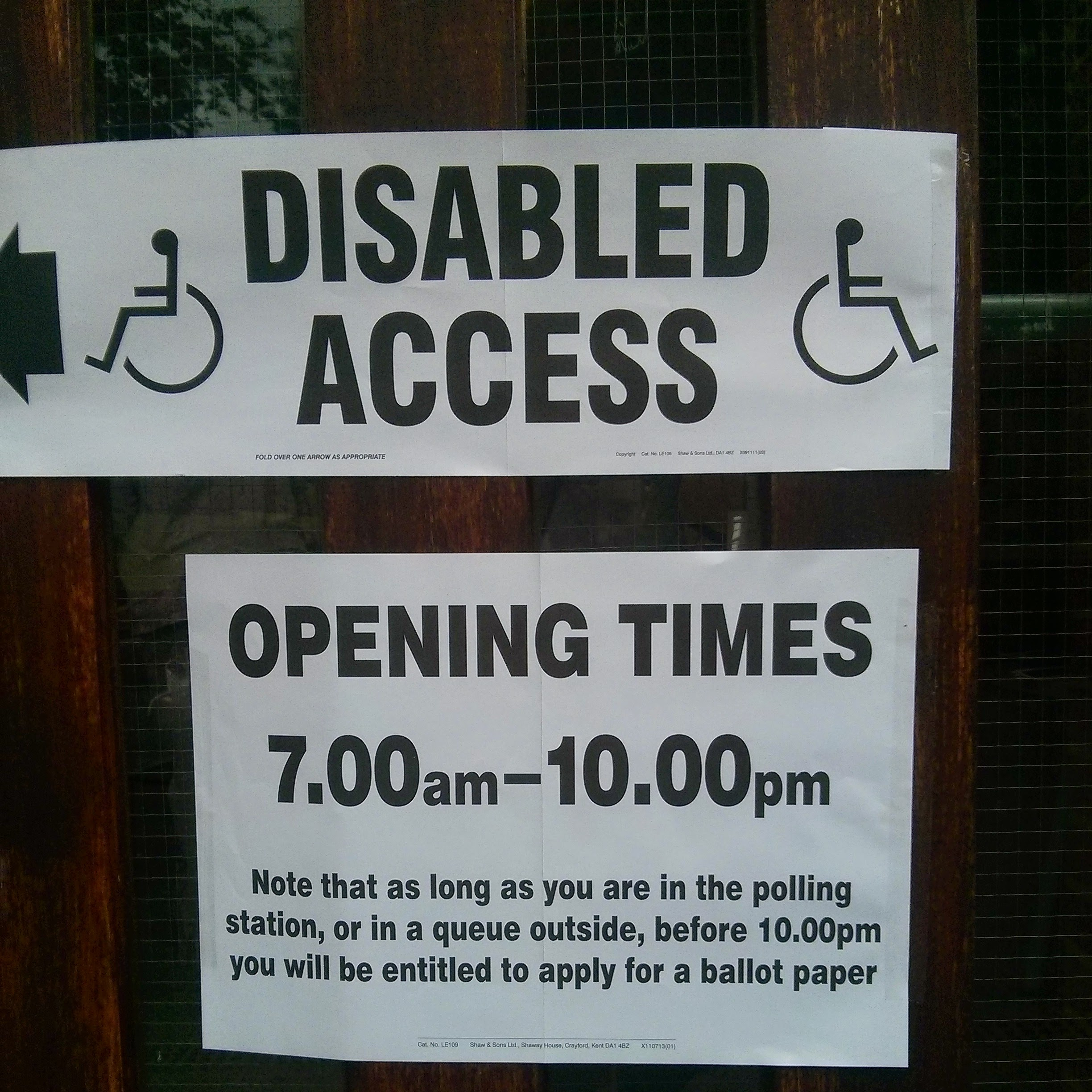 Signs at St Mary of Bethany church, Woking, showing opening hours for polling stations in the UK.